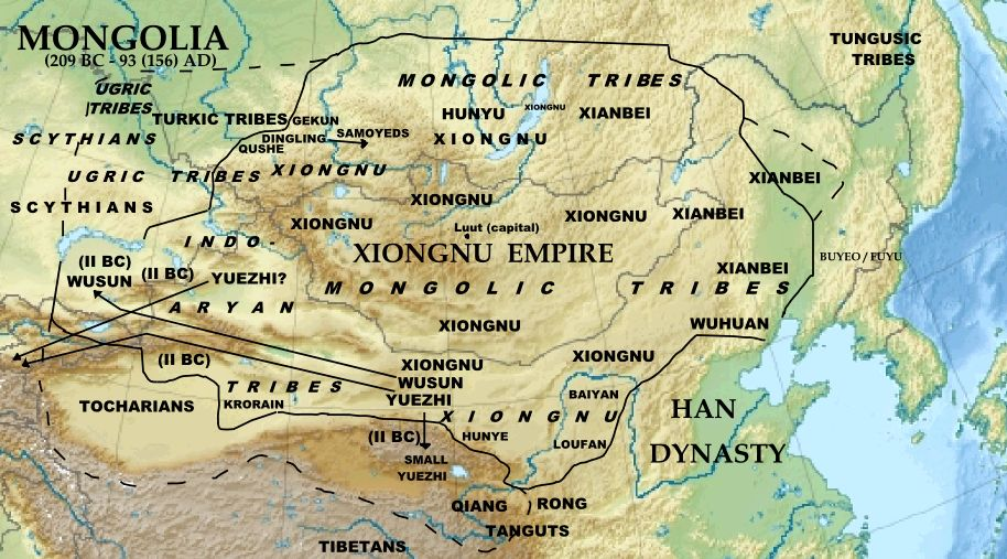 based on File:Asia laea relief location map.jpg. Data source: partially based on "Mongolian National Atlas" (2009)